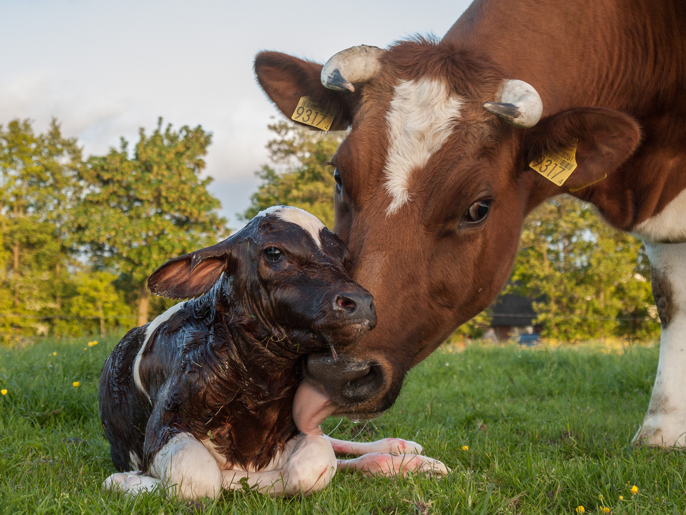 New born calf of a Friesian red and white cow. Back in 1993 there were only 17 real Friesian red and white cows left. Today, thanks to enthusiasts and a breeding program, there are about 300.